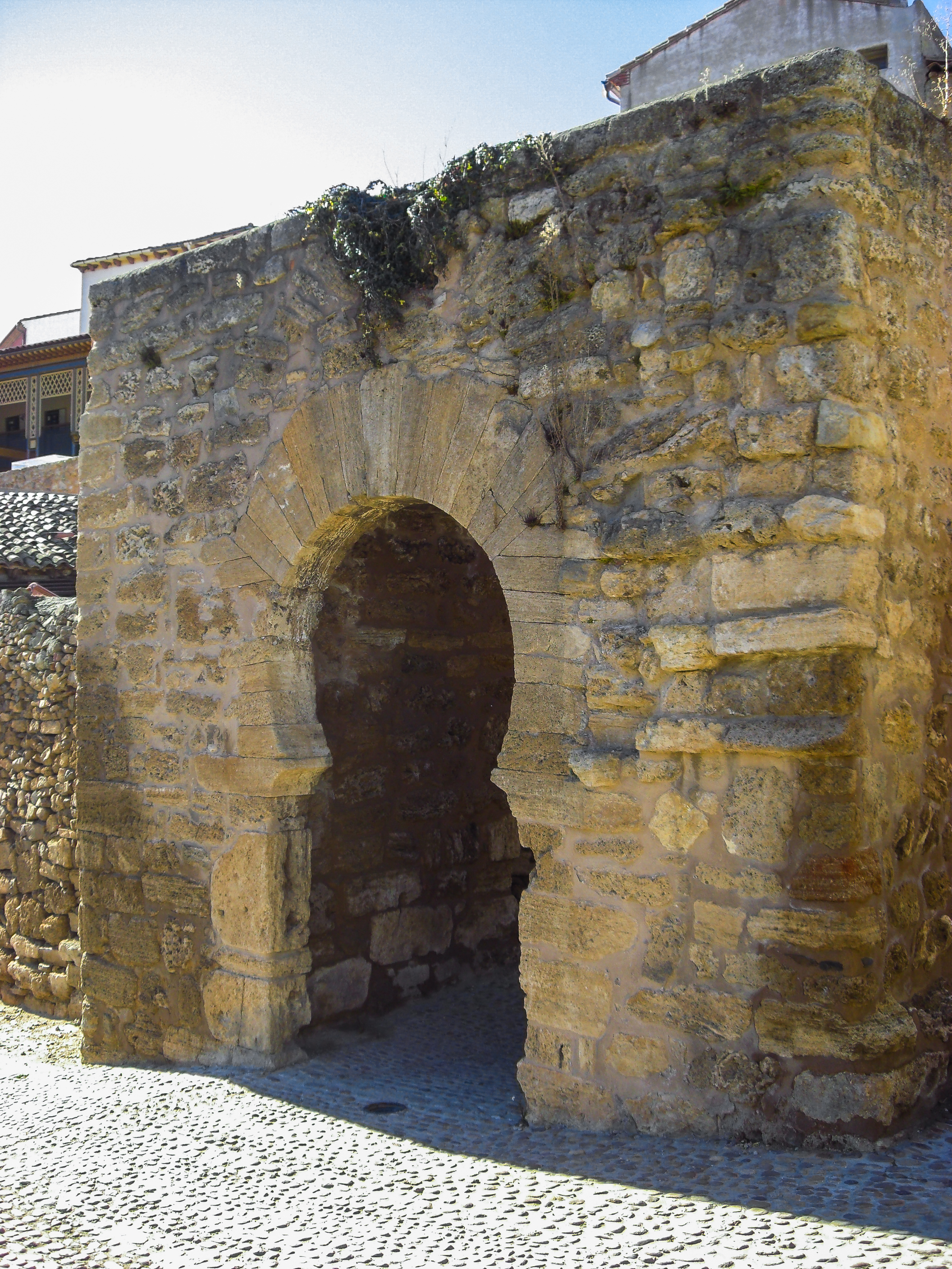 Ágreda, Soria, Spain